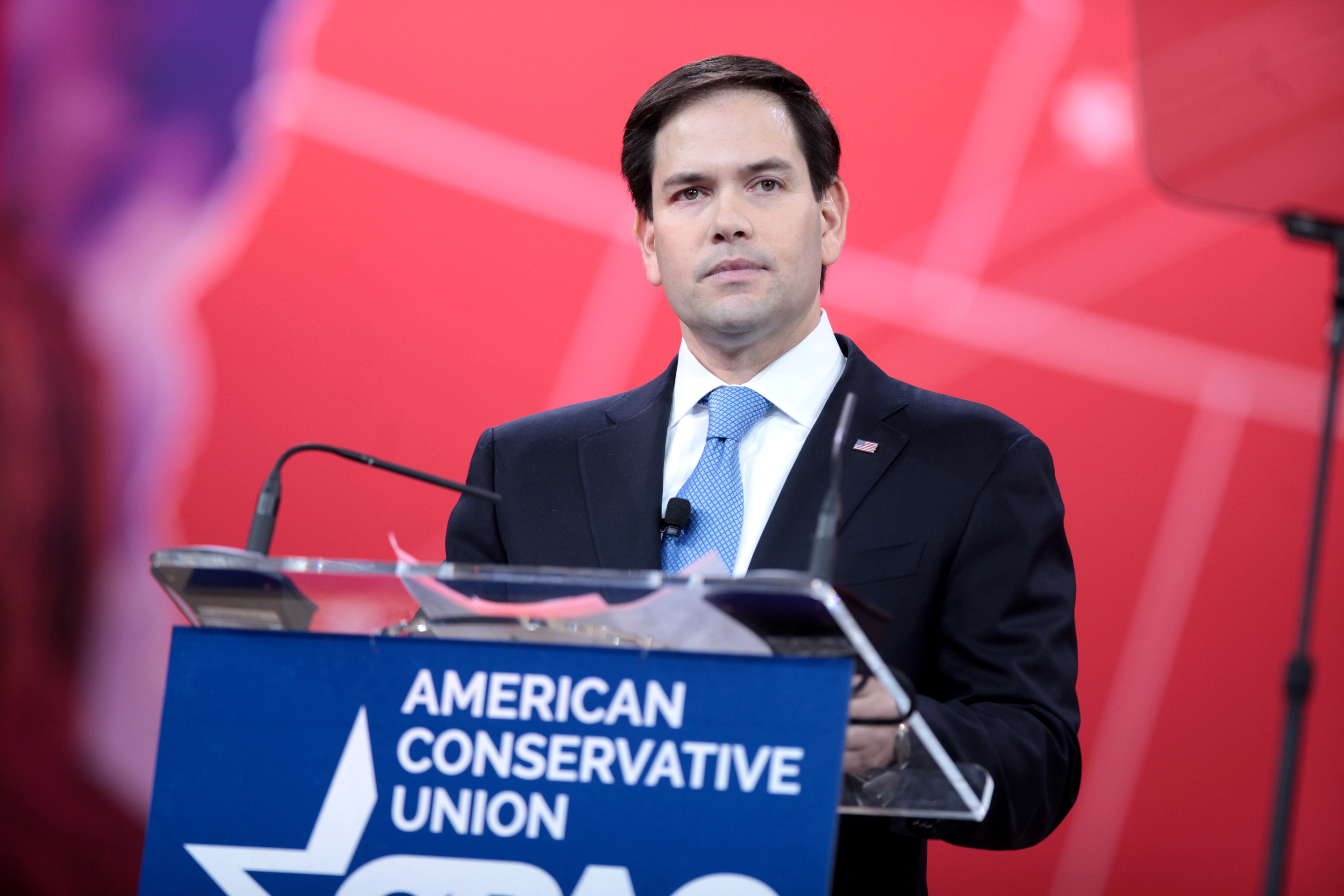 U.S. Senator Marco Rubio of Florida speaking at the 2015 Conservative Political Action Conference (CPAC) in National Harbor, Maryland.